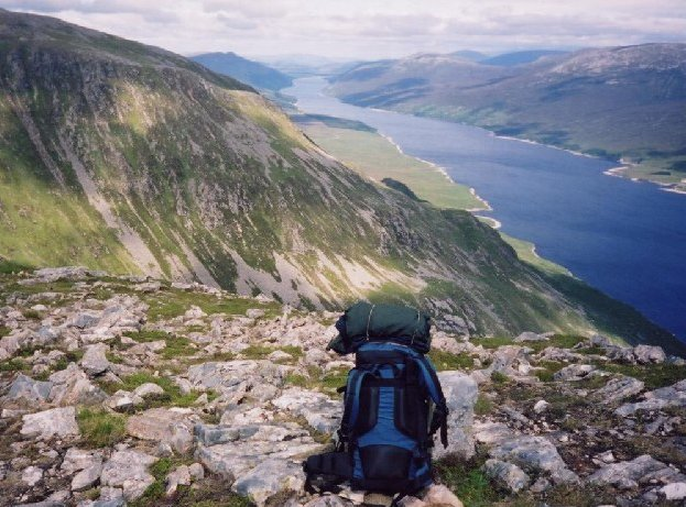 Loch Ericht viewed from Beinn Bheòil.